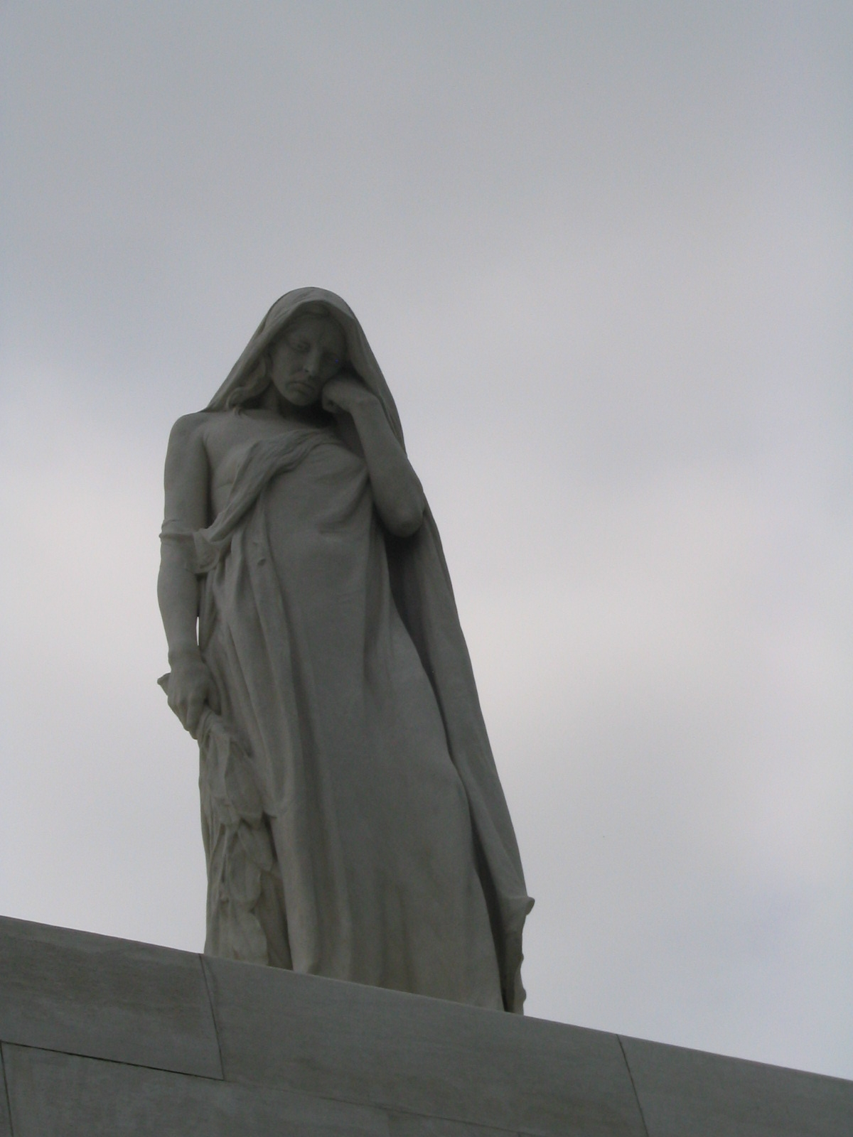 Mother Canada alone